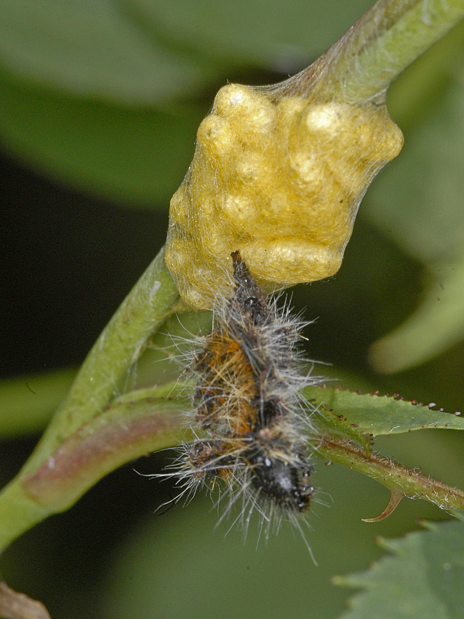 Cotesia sp., cocoons with the remains of a died parasitized caterpillar. Val Noci, Genova, Italy